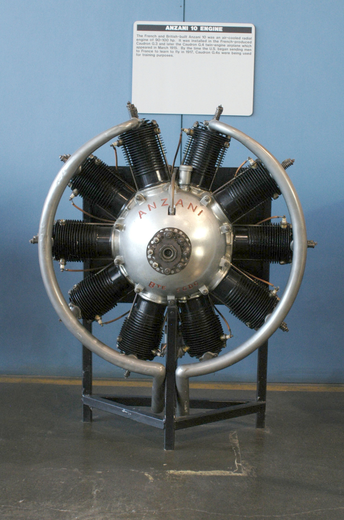 Anzani 10, output side. Image from the National Museum of the US Air Force